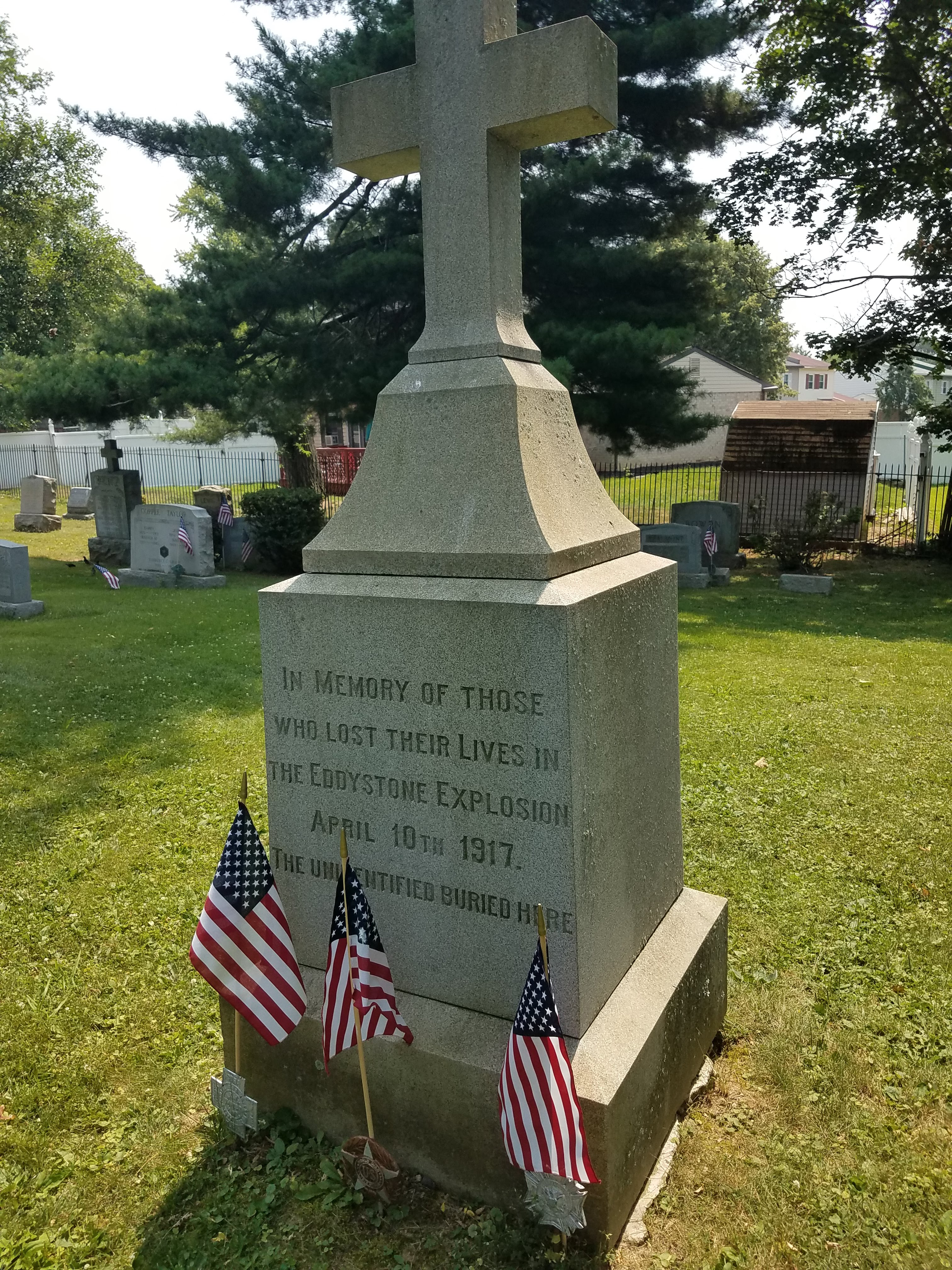 Photo of Eddystone explosion memorial in Chester Rural Cemetery in Chester, Pennsylvania taken July 3, 2018